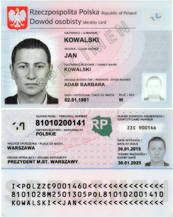 Polish identity card (specimen since 2015).